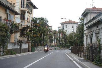 Opatija on 23 04 05 at 1728 hours